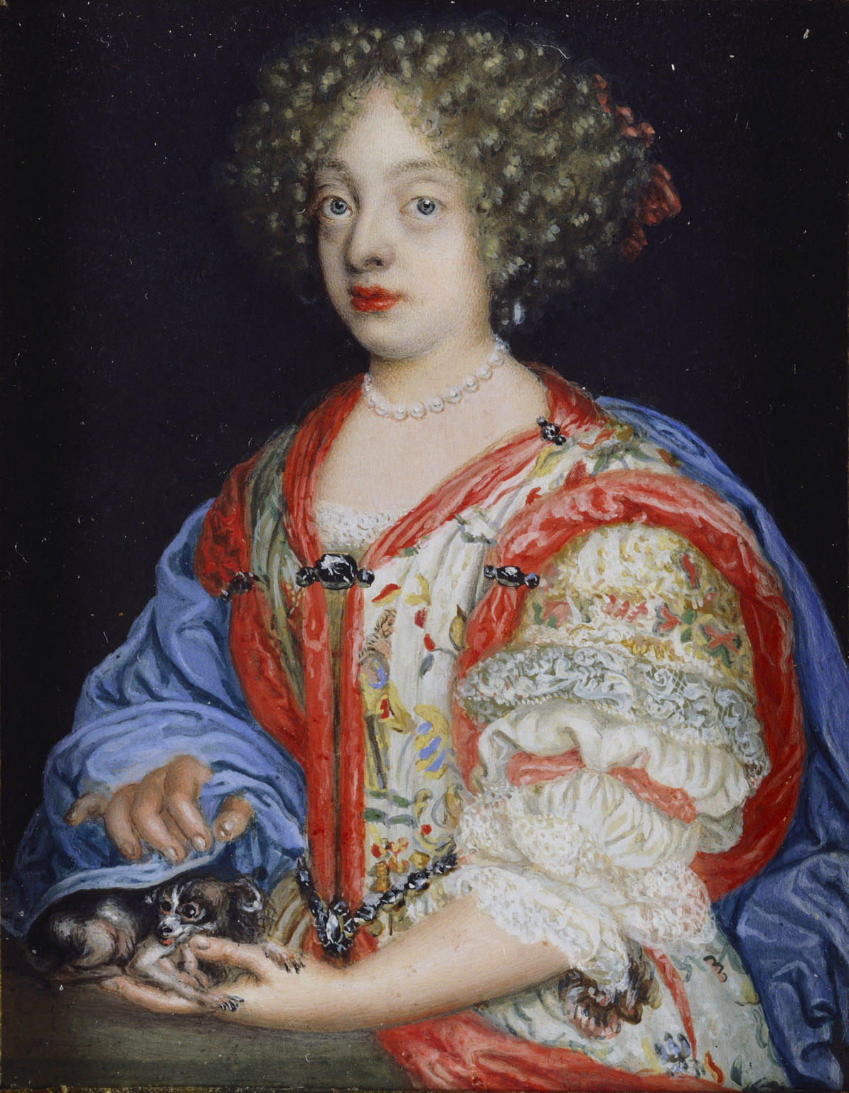 Portrait of Benedikta Henriette von Simmern (1652-1730)